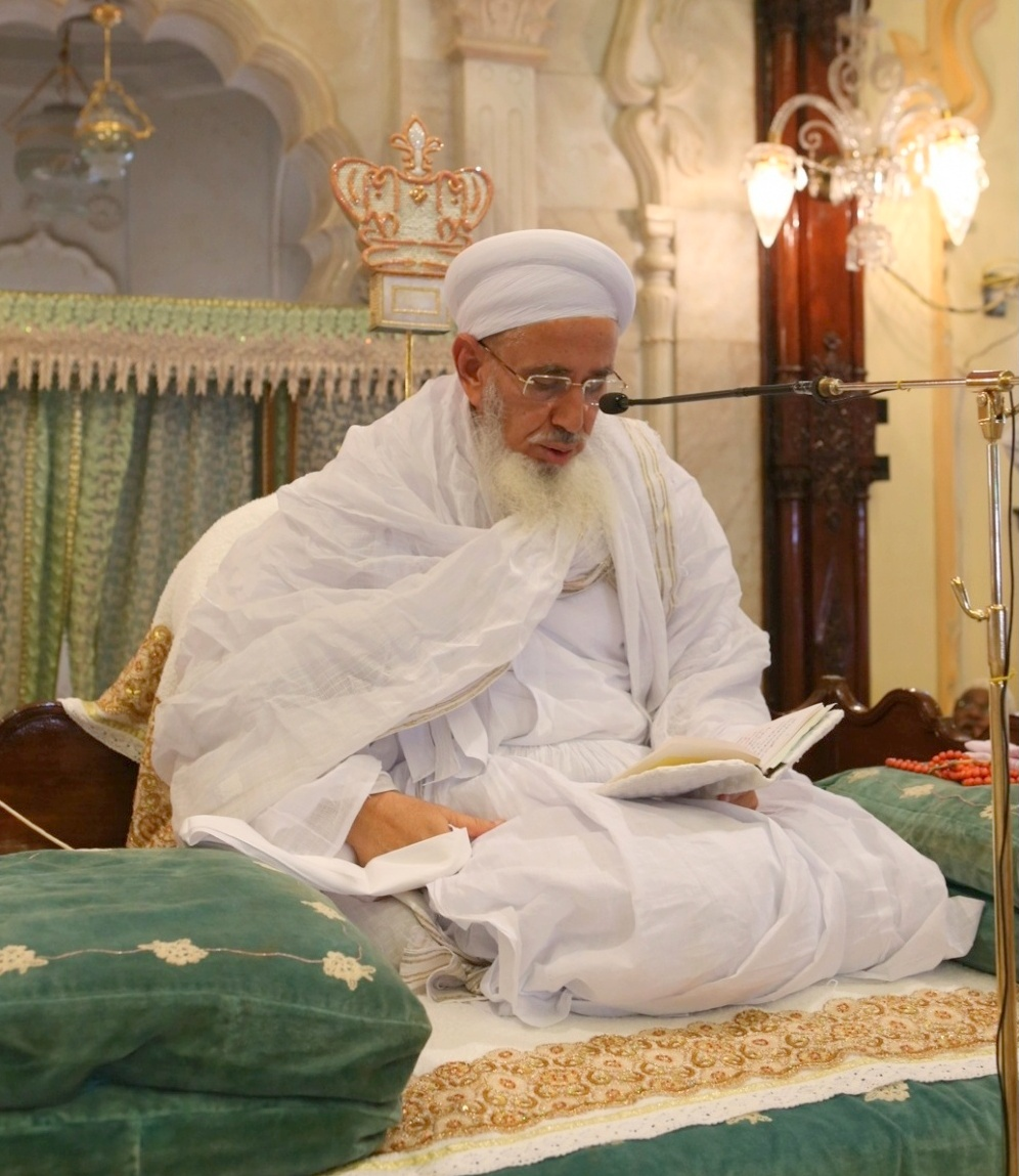 Syedna Mufaddal Saifuddin(tus) during his first Waaz on the occasion of Milad Imam uz Zaman , in Mumbai,India